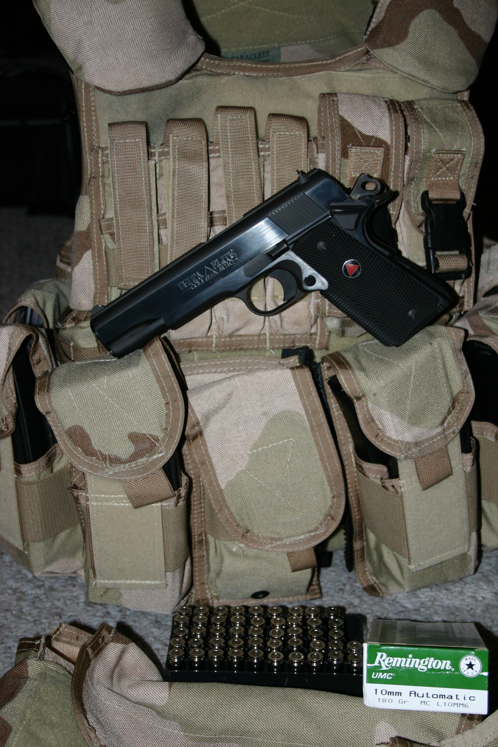 A automatic Colt pistol Delta Elite chambered for the 10mm Auto.